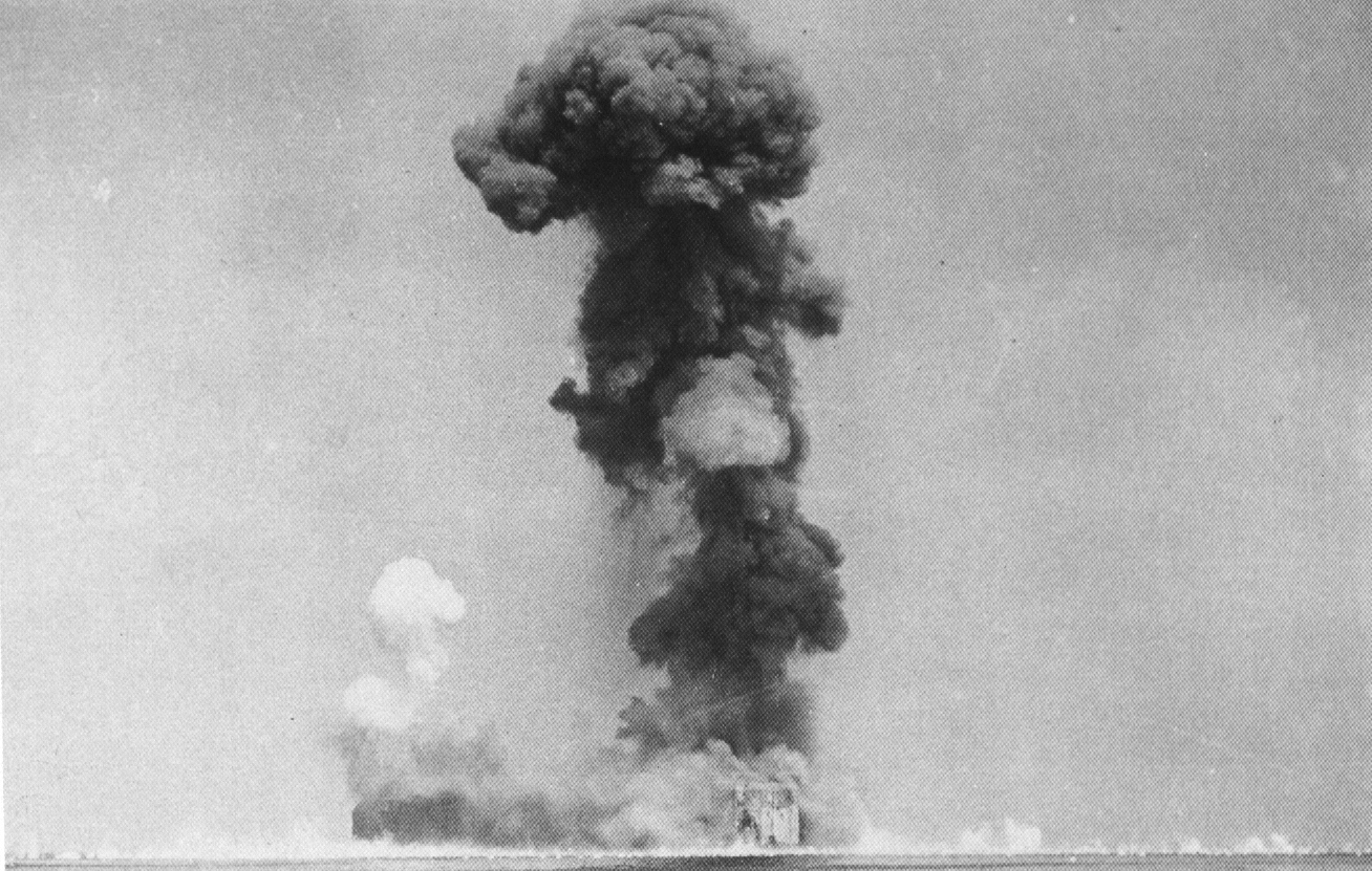 Battery McCrea magazine explodes as petroleum burns throughout Fort Drum. The explosion of a magazine blows the armor and concrete off the top of Battery McCrea on April 13, 1945.